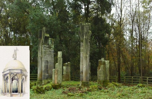 Gopsall Hall Temple Gopsall Hall Temple where Handel is said to have composed his Messiah in 1741. Historians dispute this as Gopsall Hall was not built until 1750, yet there is a picture by the Belgian artist Pieter Tillemans who died in 1734 which shows the Hall in all its glory with the Temple in the left foreground. (Inset) The original Temple from an architects drawing, the statue above is called Religion and today is housed in the garden of Belgrave Hall Museum Leicester.